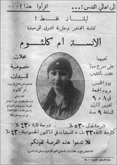 Poster advertising Umm Kalthoum's concert in Jerusalem.